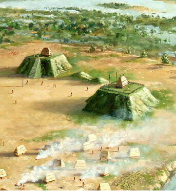 An image of the Mississippian culture Shiloh Indian Mounds Site on the grounds of the Shiloh National Military Park, with two mounds around a plaza.